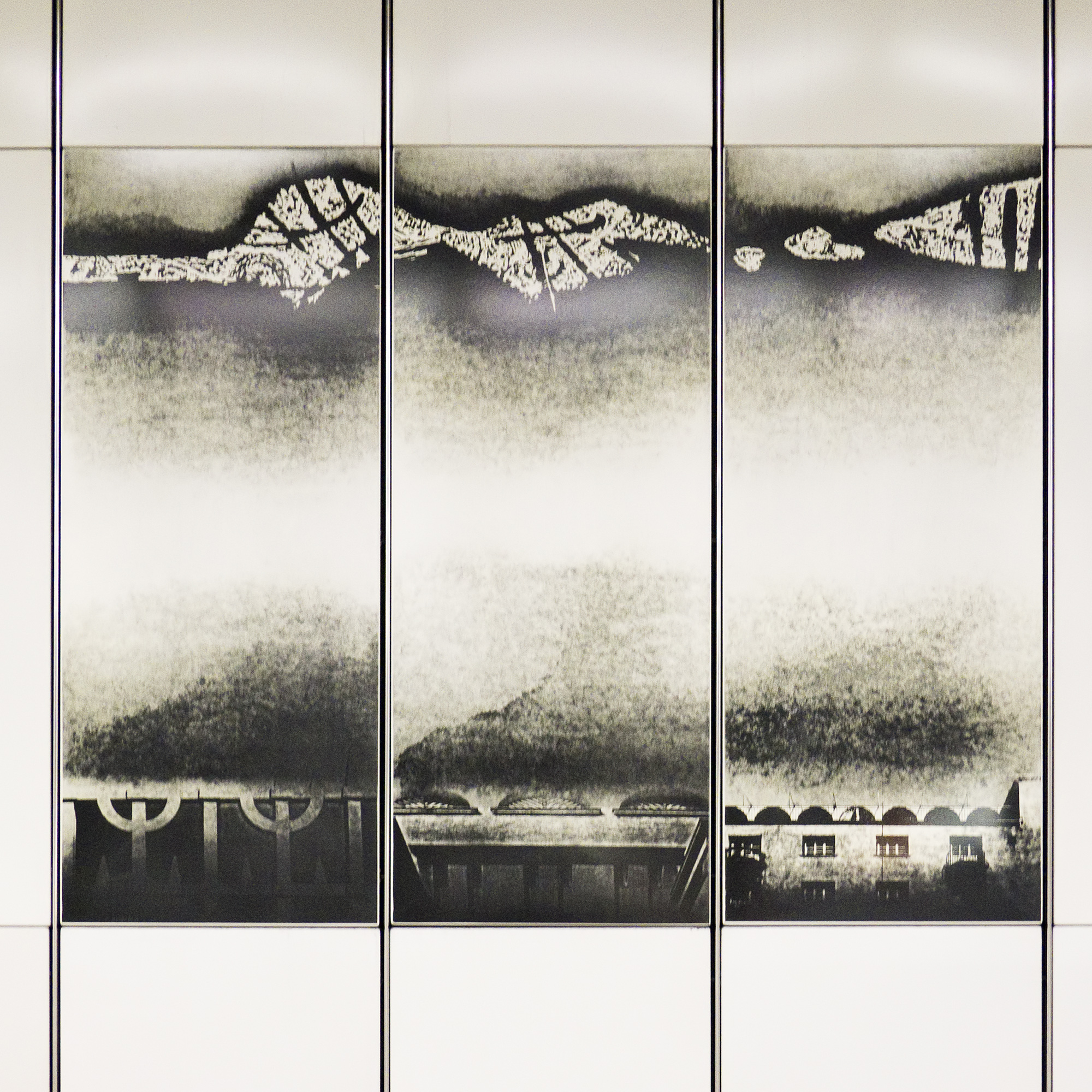 Underground station U-Bahn-Station Johnstraße in Vienna 15